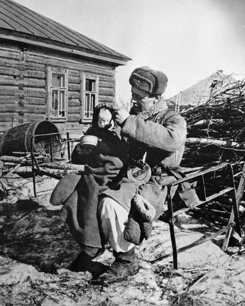 “Orphan”. A soldier holding a child whose mother was killed.